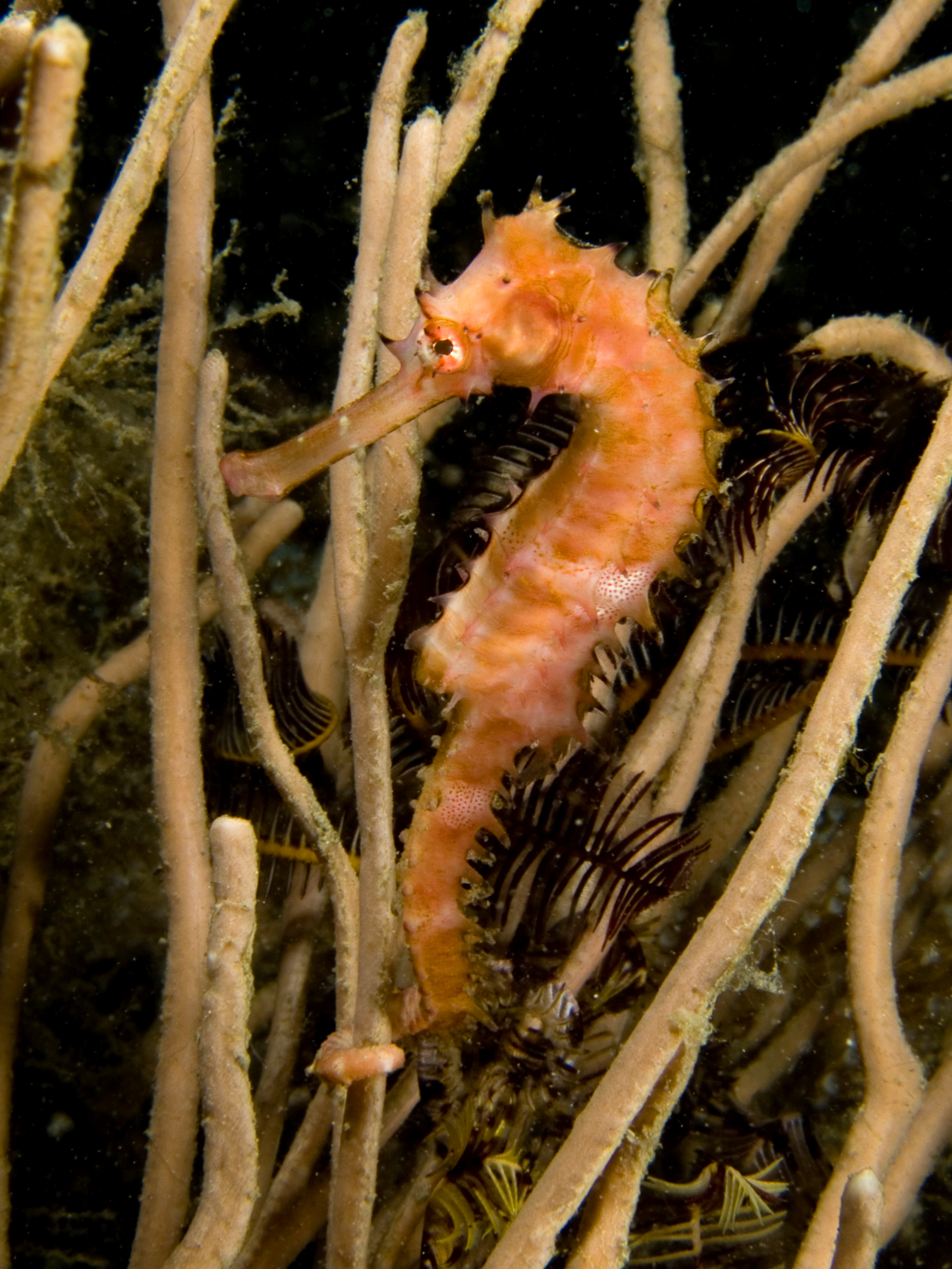 Spiny seahorse (Hippocampus histrix) from the northern coast of East Timor. This individual was very close in color to the soft coral it was hanging on to. The artificial light from the strobes brought out a hint of pink in its coloration.